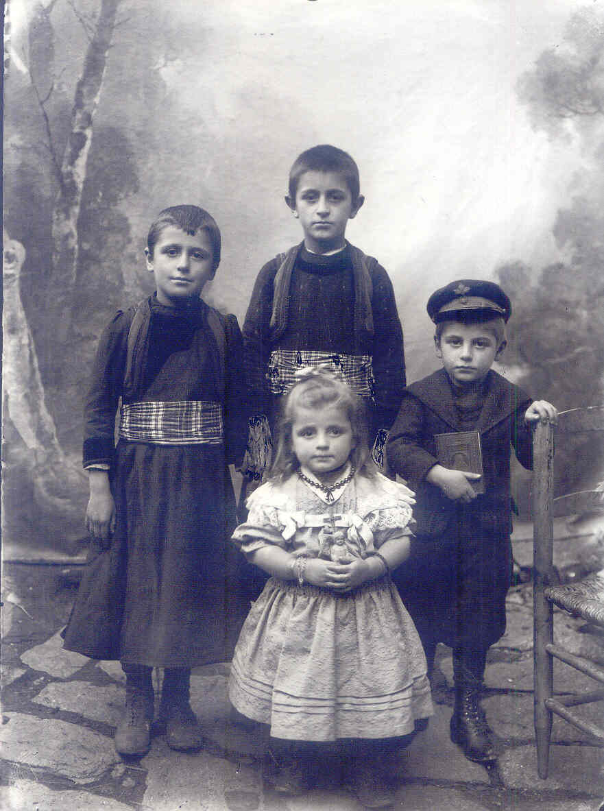 Children from Klisoura Kastoria- Greece